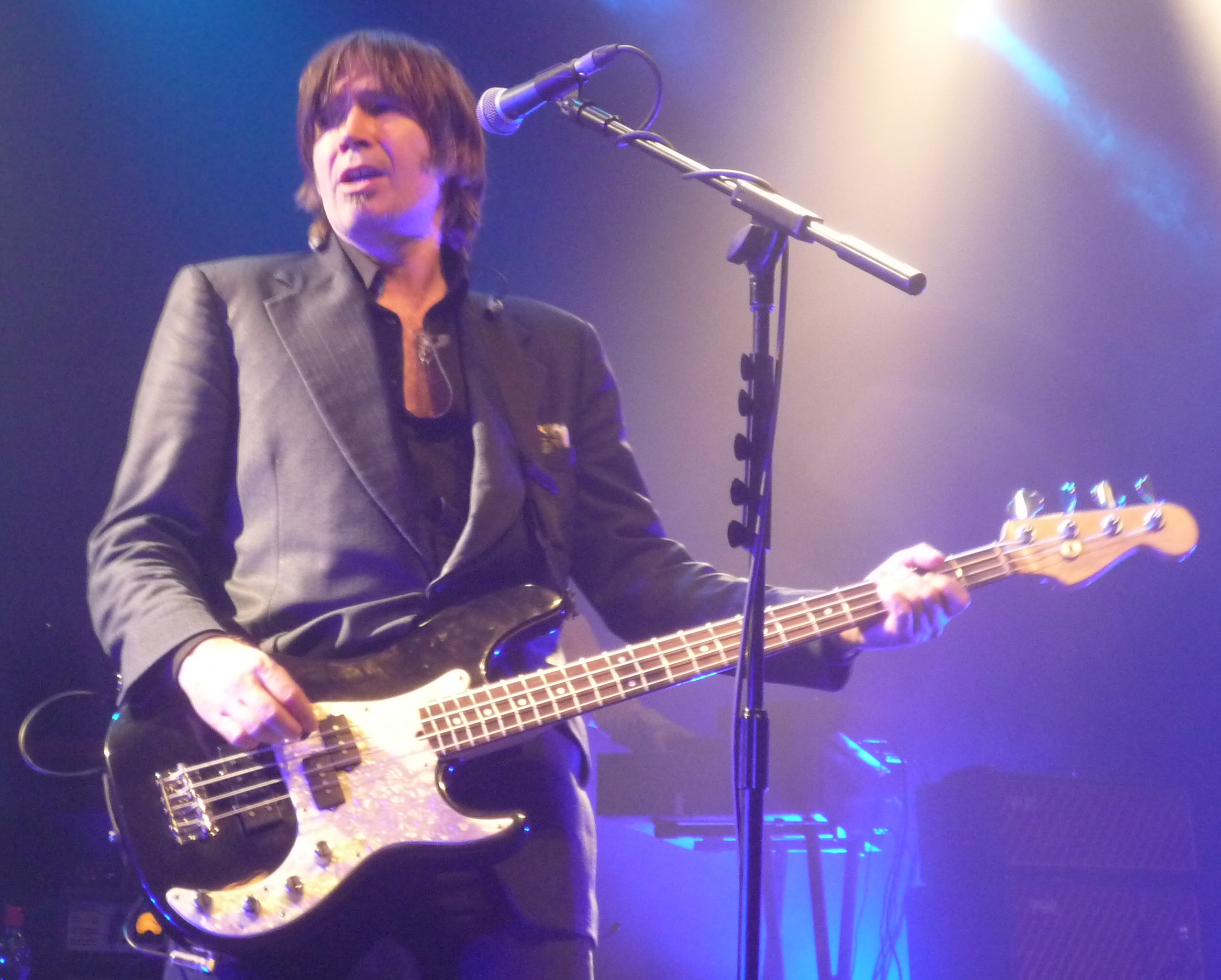 Justin Currie of the band Del Amitri, performing with the group at Vicar Street in Dublin, 22nd January 2014.